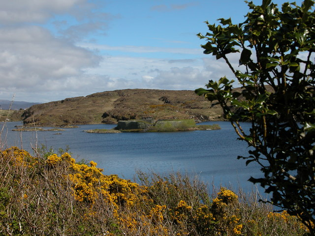 Doon Lough. Doon Fort, an impressive stone fort and crannóg (small artificial island-refuge), can be seen in the centre of the picture.